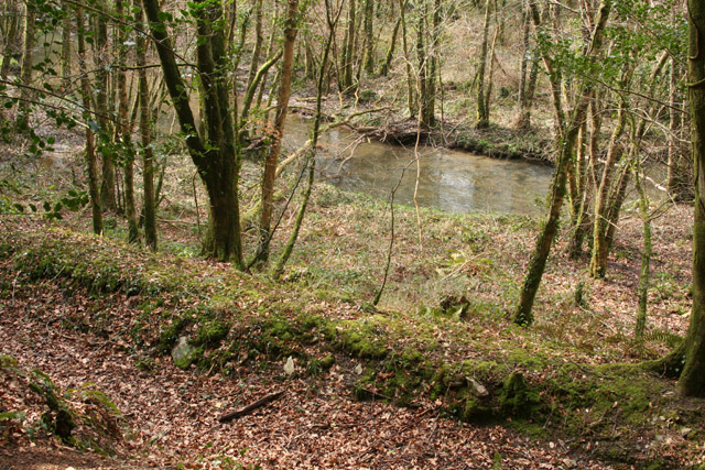 Duloe: West Looe River. With the dried up leat channel which once led to Tremadart Mill in the foreground. Seen from the public bridleway above Church Bridge